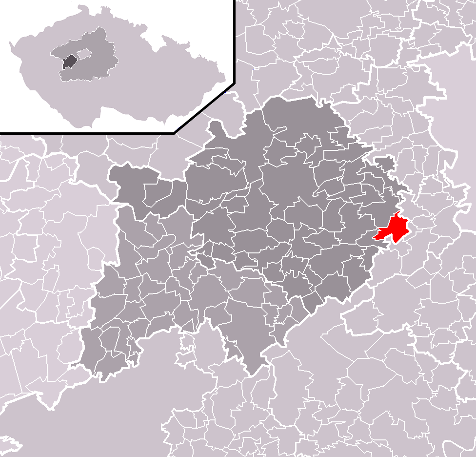 Location of Mořinka municipality within Beroun District and administrative area of Beroun as a Municipality with Extended Competence.